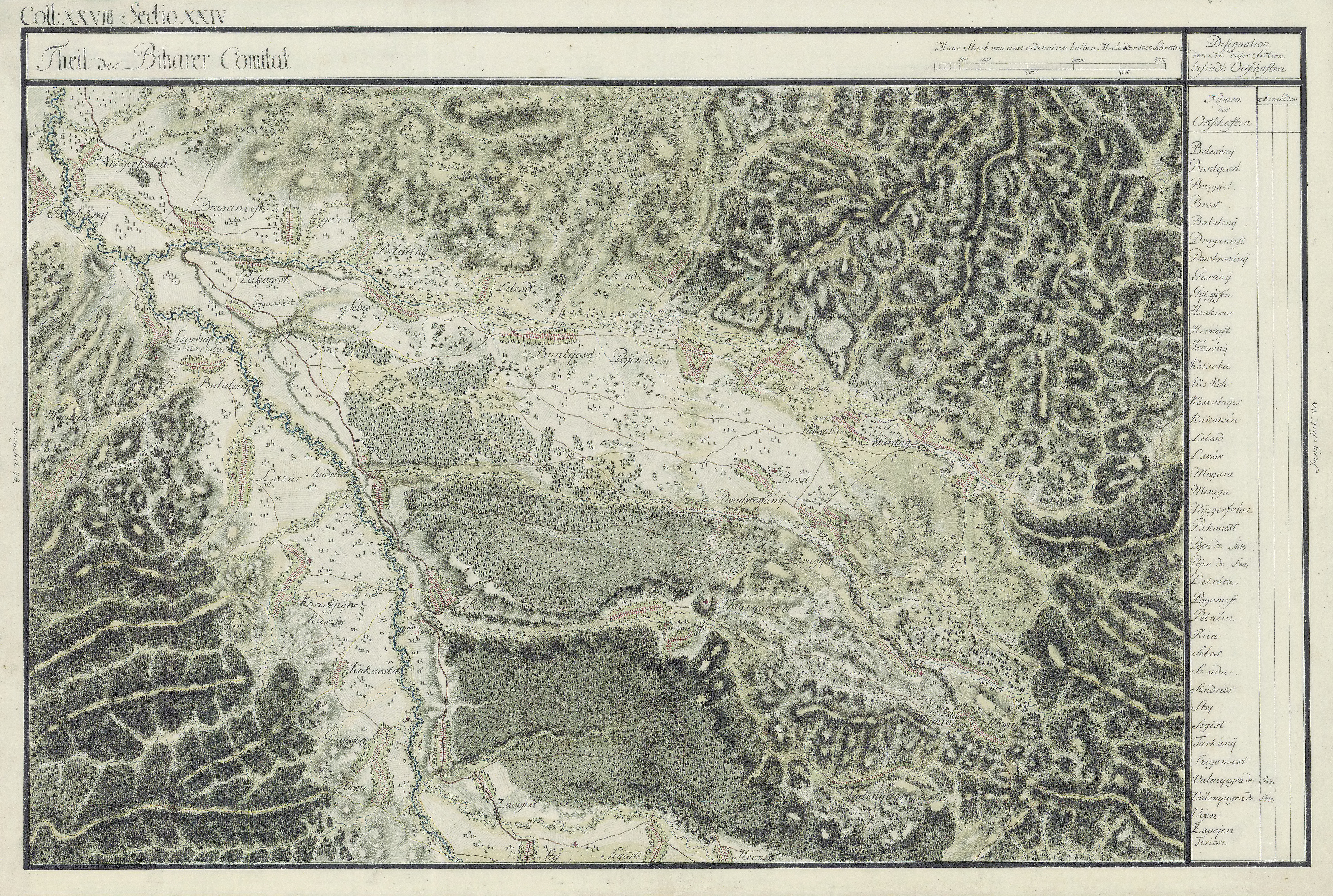 Bihor County, 1782-85. Josephinische Landesaufnahme pg.28-24Română: Harta Iosefină a Comitatului Bihor, 1782-85. Josephinische Landesaufnahme pg.28-24